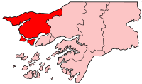 Map of Guinea-Bissau showing Cacheu region.